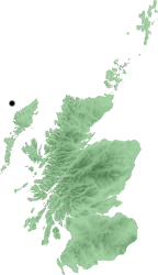 Flannan Isles with dot